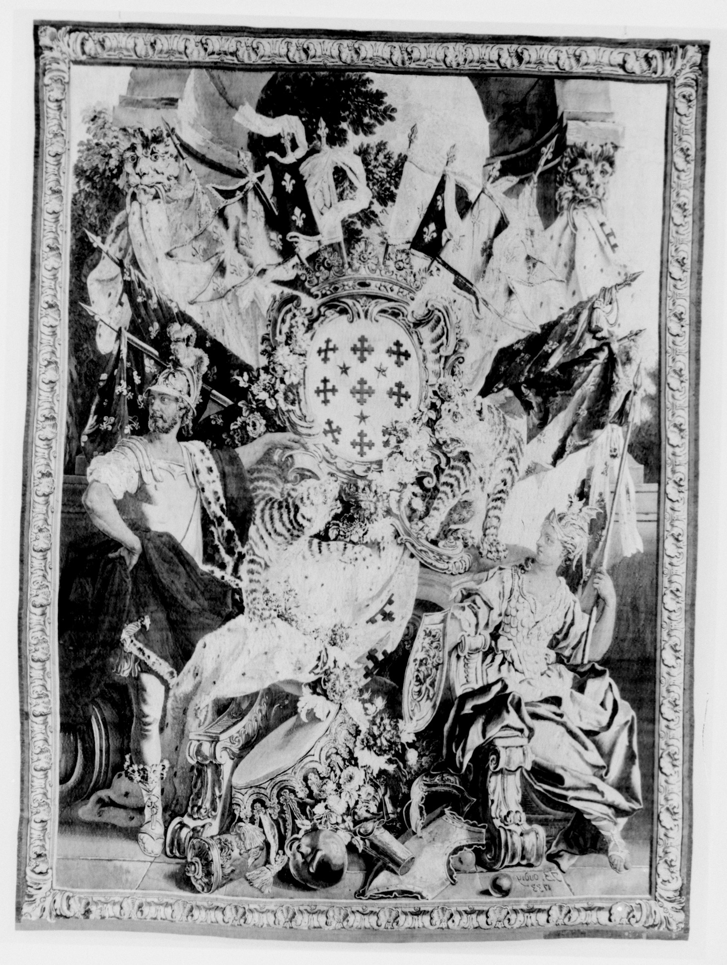 French, Beauvais; Tapestry; Textiles-Tapestries